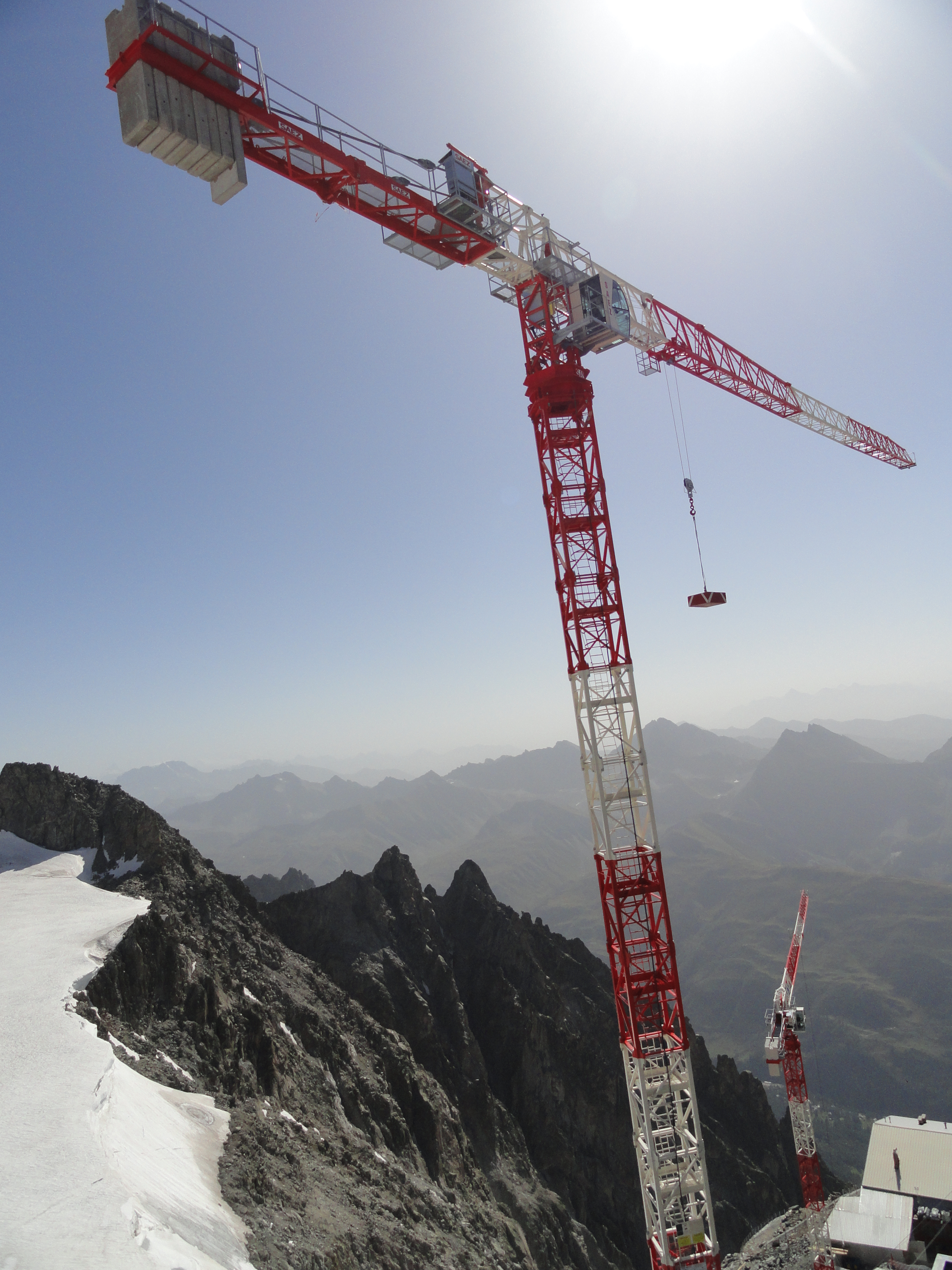 Tower crane atop Mont Blanc, France